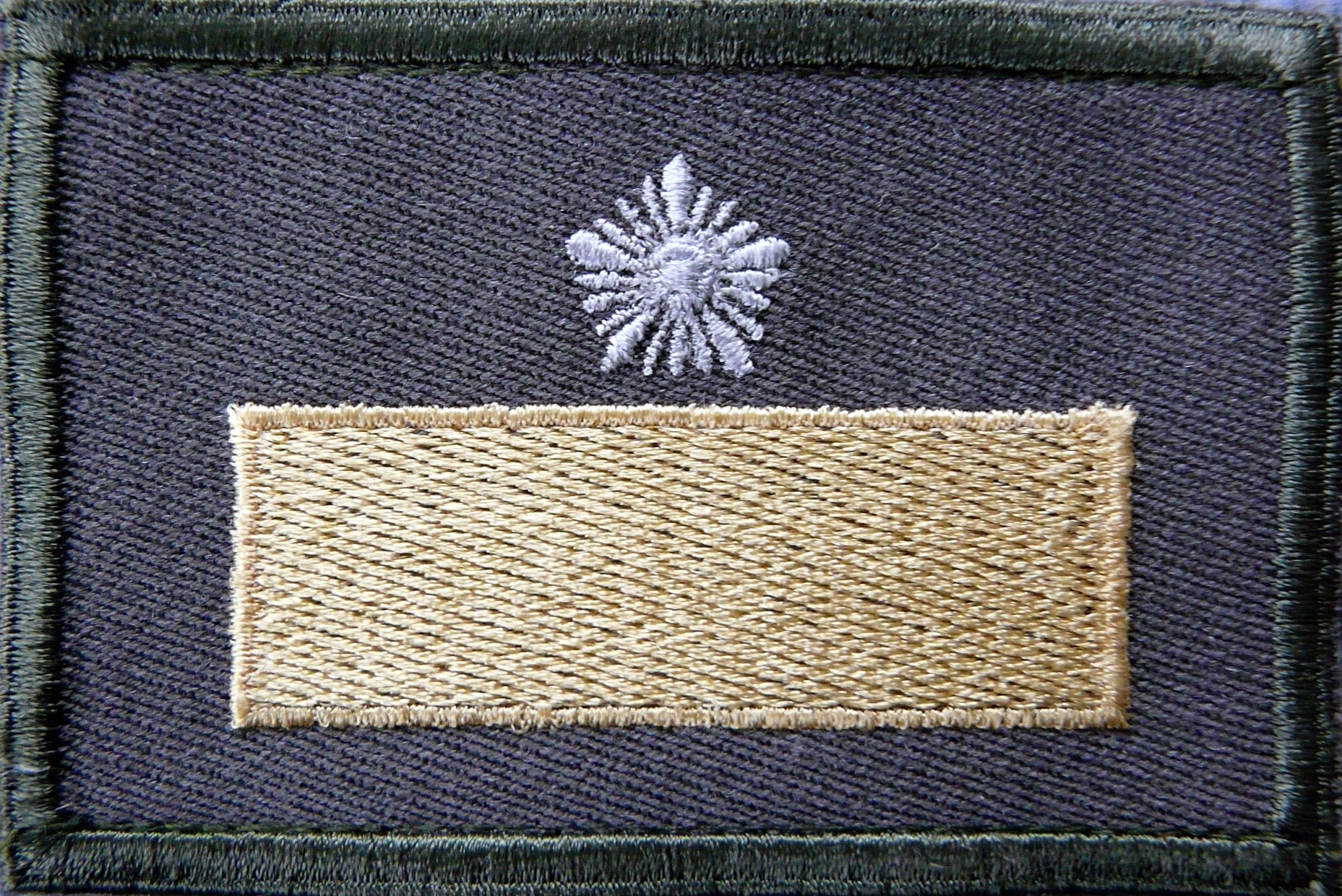 Military rang insignia of the German Democratic Republic until 1990, here: Chefron indicating Major general (comparable to OF-6 NATO) Colour: Stone grey flying suit of the flight officer, to – National People´s Army: Land forces, Army aviation Air Force, all flying service branches.